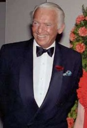 Douglas Fairbanks Jr at the White House